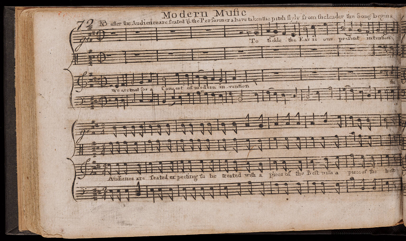 The psalm-singers amusement : containing a number of fuging pieces and anthems / composed by William Billings, author of the singing masters assistant ; printed and sold by the author at his house near the white house. Boston: John Norman, 1781.